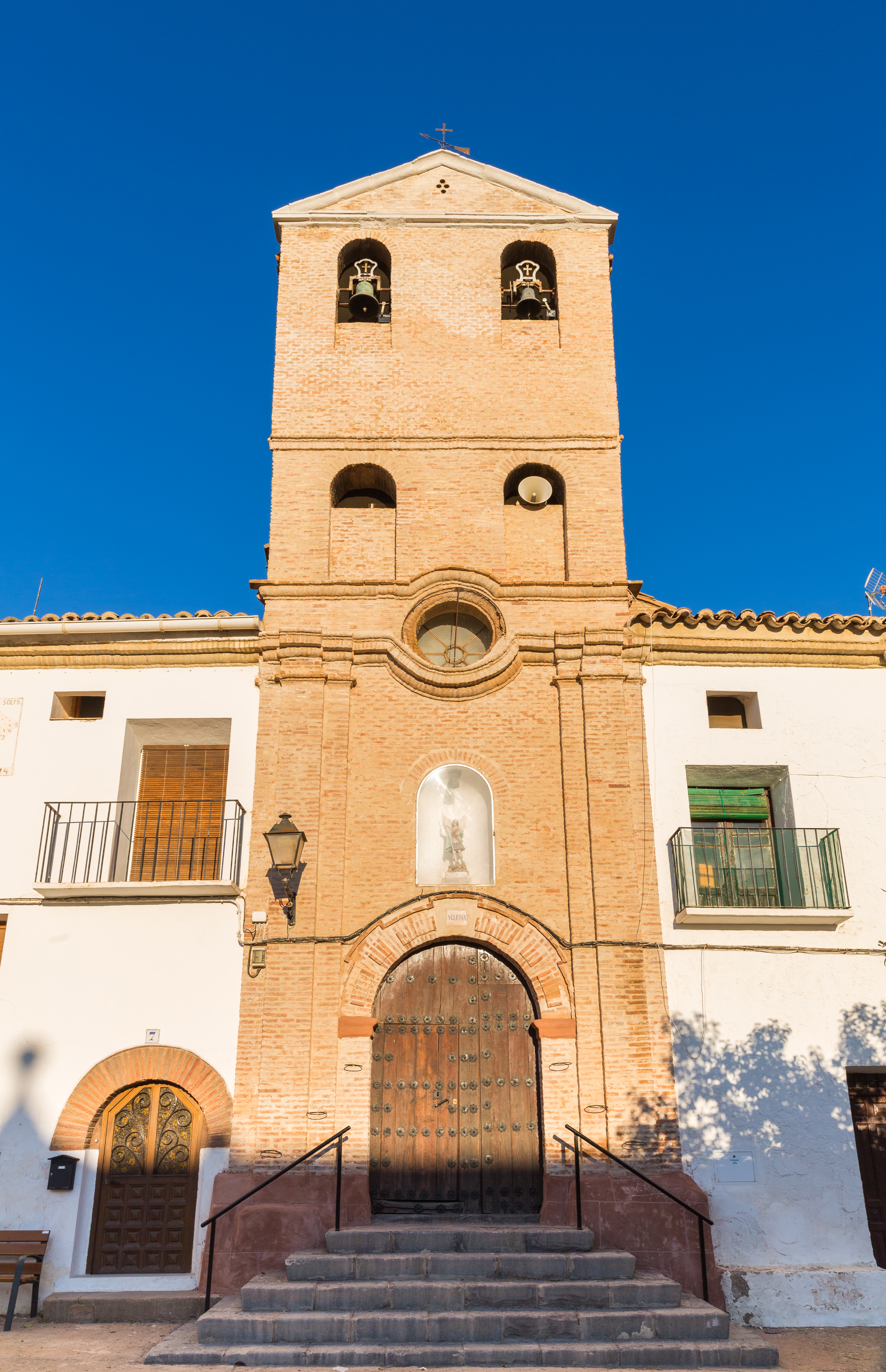 St Michael church, Plaza de España, Chodes, Zaragoza, Spain